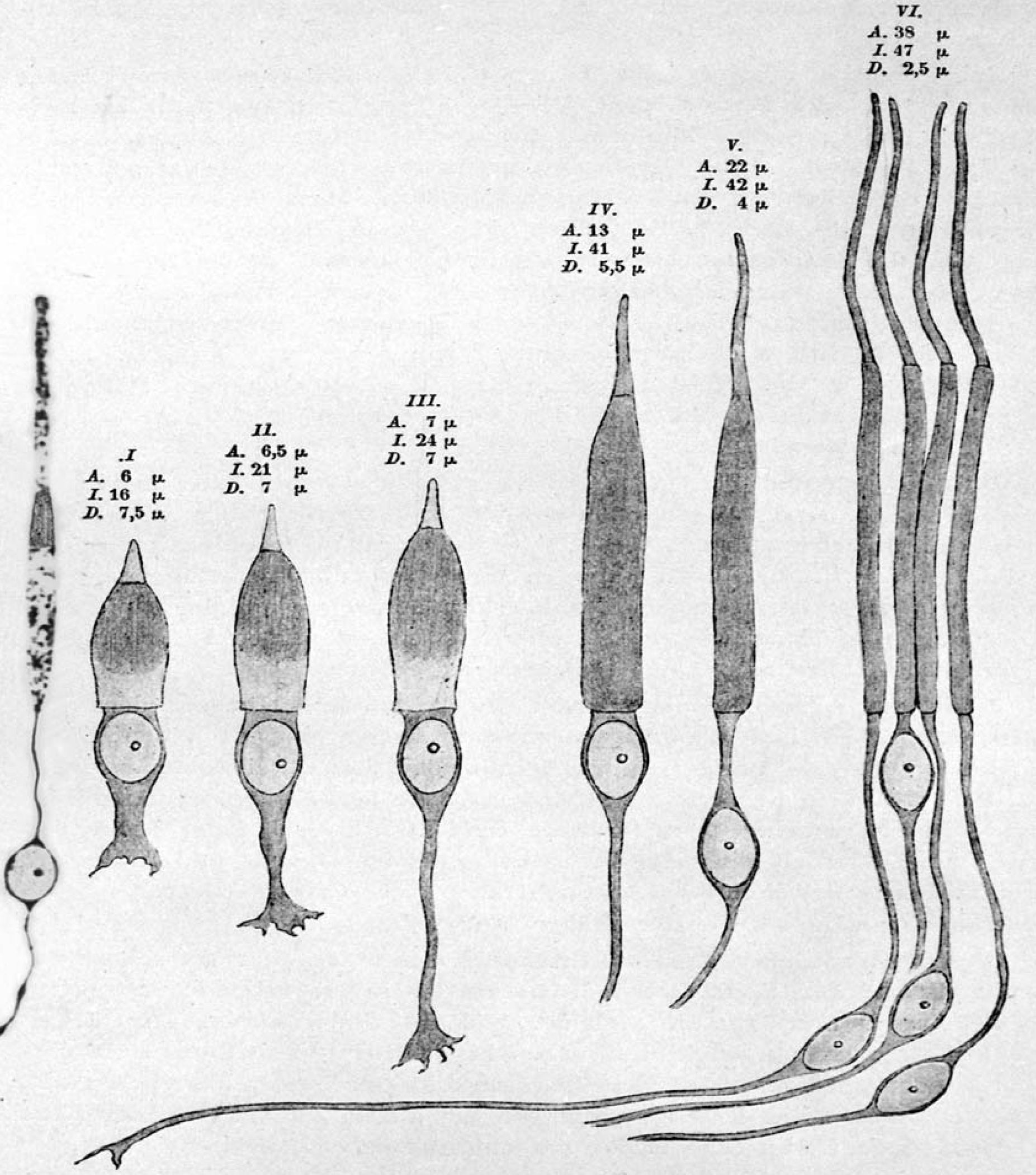 Cones in human retina. Draving by Richard Greeff, 1900